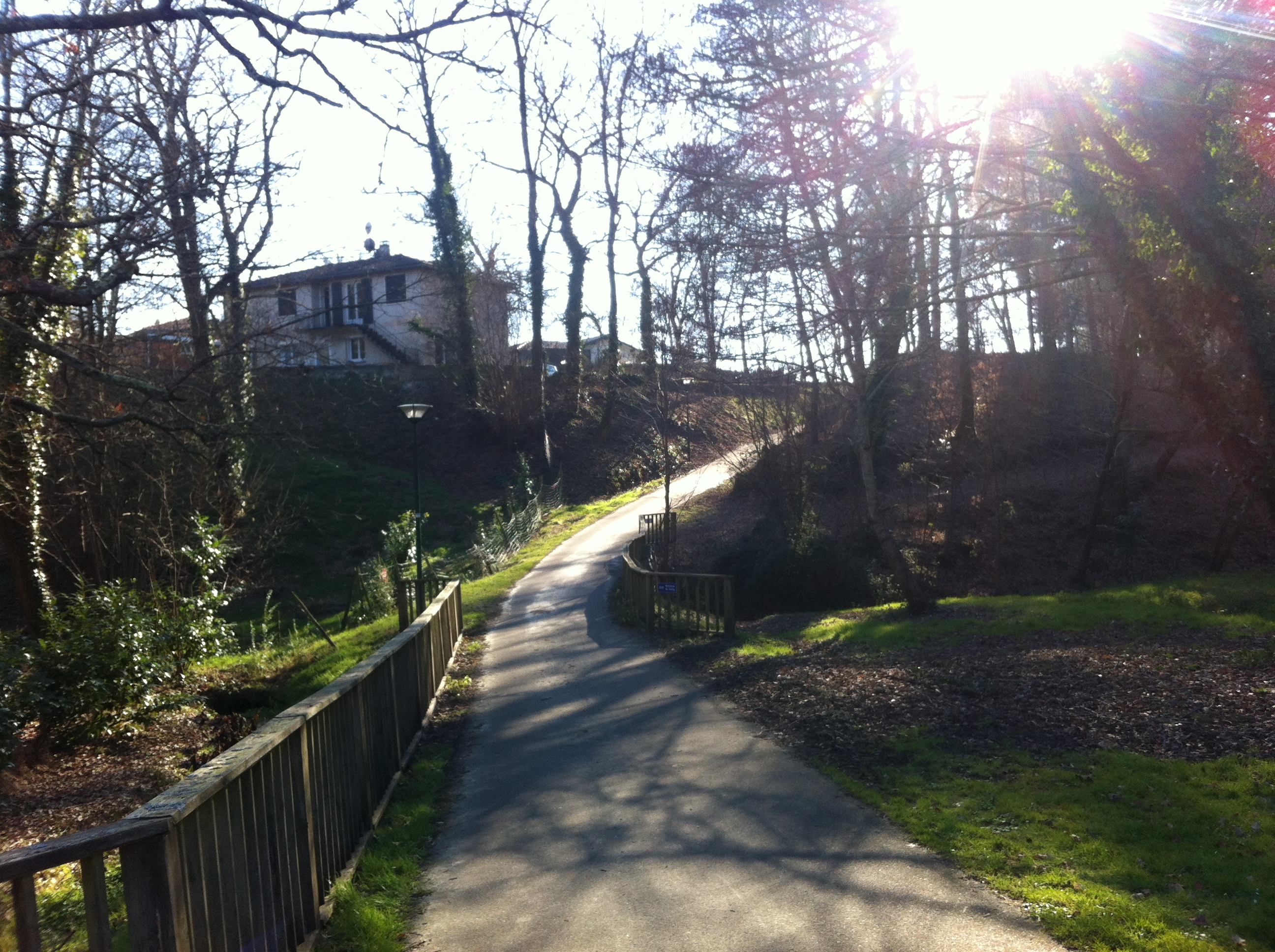 Today there is a "voie verte" passing through this place.